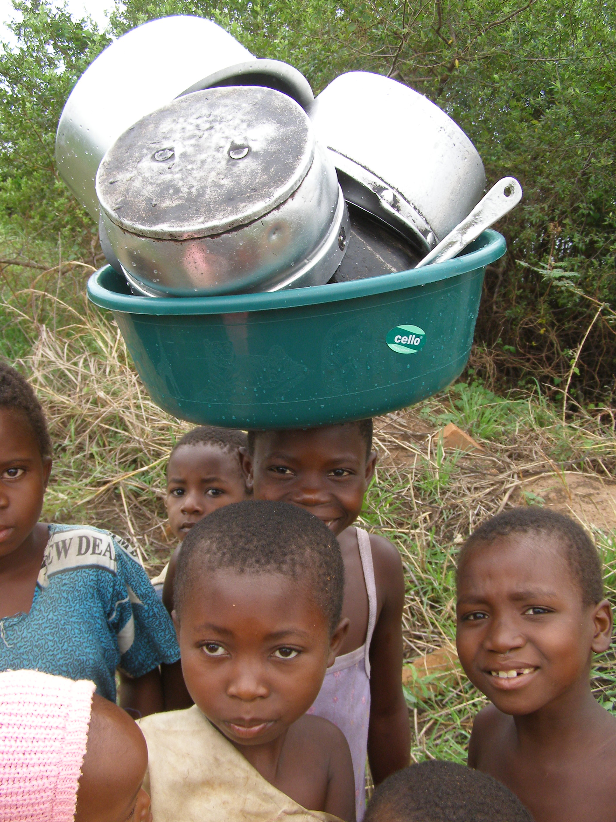 transport on the head everything it is possible. This is an image with the theme "Africa on the Move or Transport" from: Democratic Republic of the Congo